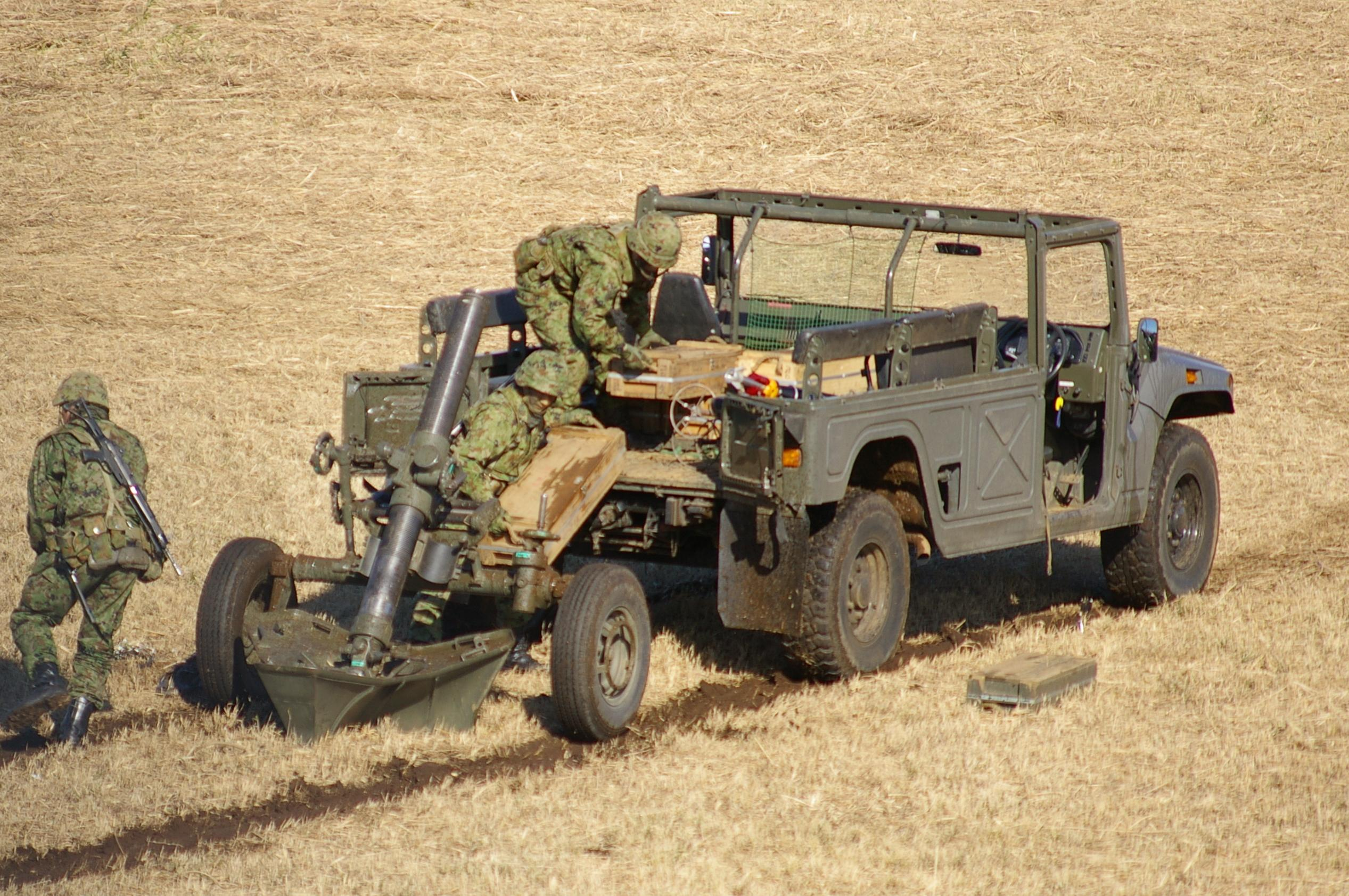 JGSDF 120mm mortar RT.Taken by Los688,in Narashino,Japan,at 07-Jan-2007,JGSDF 1st Airborne Brigade 2007 first drop manuver.PD-self 陸上自衛隊120mm迫撃砲 RT。高機動車に索引されてきた直後。